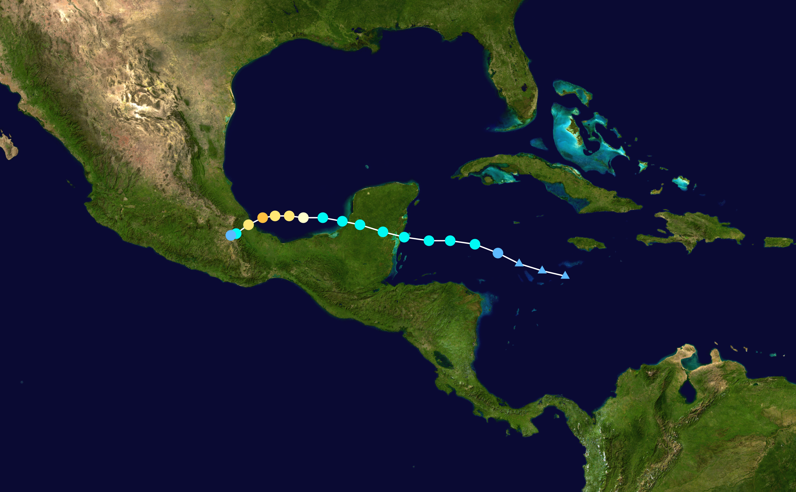 Track map of Hurricane Karl of the 2010 Atlantic hurricane season. The points show the location of the storm at 6-hour intervals. The colour represents the storm's maximum sustained wind speeds as classified in the Saffir–Simpson scale (see below), and the shape of the data points represent the nature of the storm, according to the legend below. Saffir–Simpson scale Tropical depression≤38 mph≤62 km/h Category 3111–129 mph178–208 km/h Tropical storm39–73 mph63–118 km/h Category 4130–156 mph209–251 km/h Category 174–95 mph119–153 km/h Category 5≥157 mph≥252 km/h Category 296–110 mph154–177 km/h Unknown Storm type Tropical cyclone Subtropical cyclone Extratropical cyclone / Remnant low / Tropical disturbance / Monsoon depression